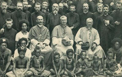 Missionaries on Yule Island. European mission priests headed by Fr. Alain de Boismenu (second from right, seated) and Yule Island children and adults during Fr. Boismenu's Episcopal Jubilee in 1892.